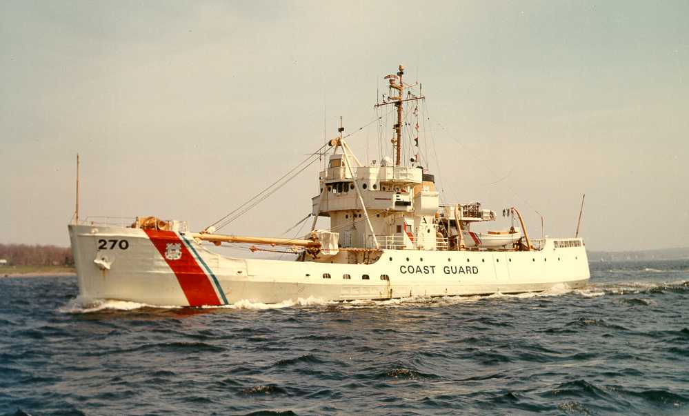 USCGC Cactus